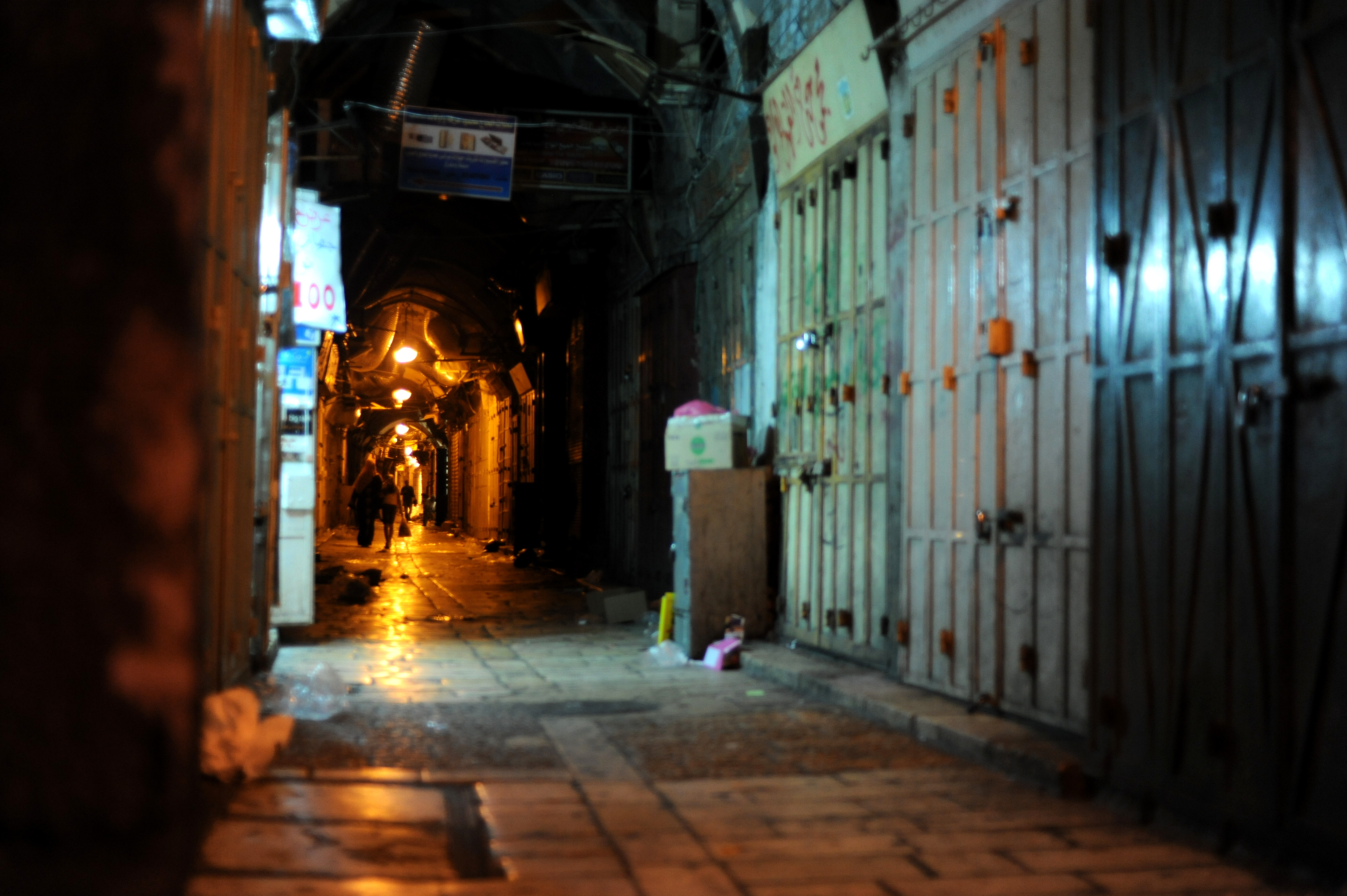 Narrow alleyways of Old Jerusalem, the south end of the Suq Khan es-Zeit where it eventually becomes the covered Suq el Attarin, or spice and perfume market. in hebrew : Shuk ha-Basamim street, in arabic : "Suq Al-Attarin street" (the name means "the spice and perfume market"), by night. all the shops are closed.